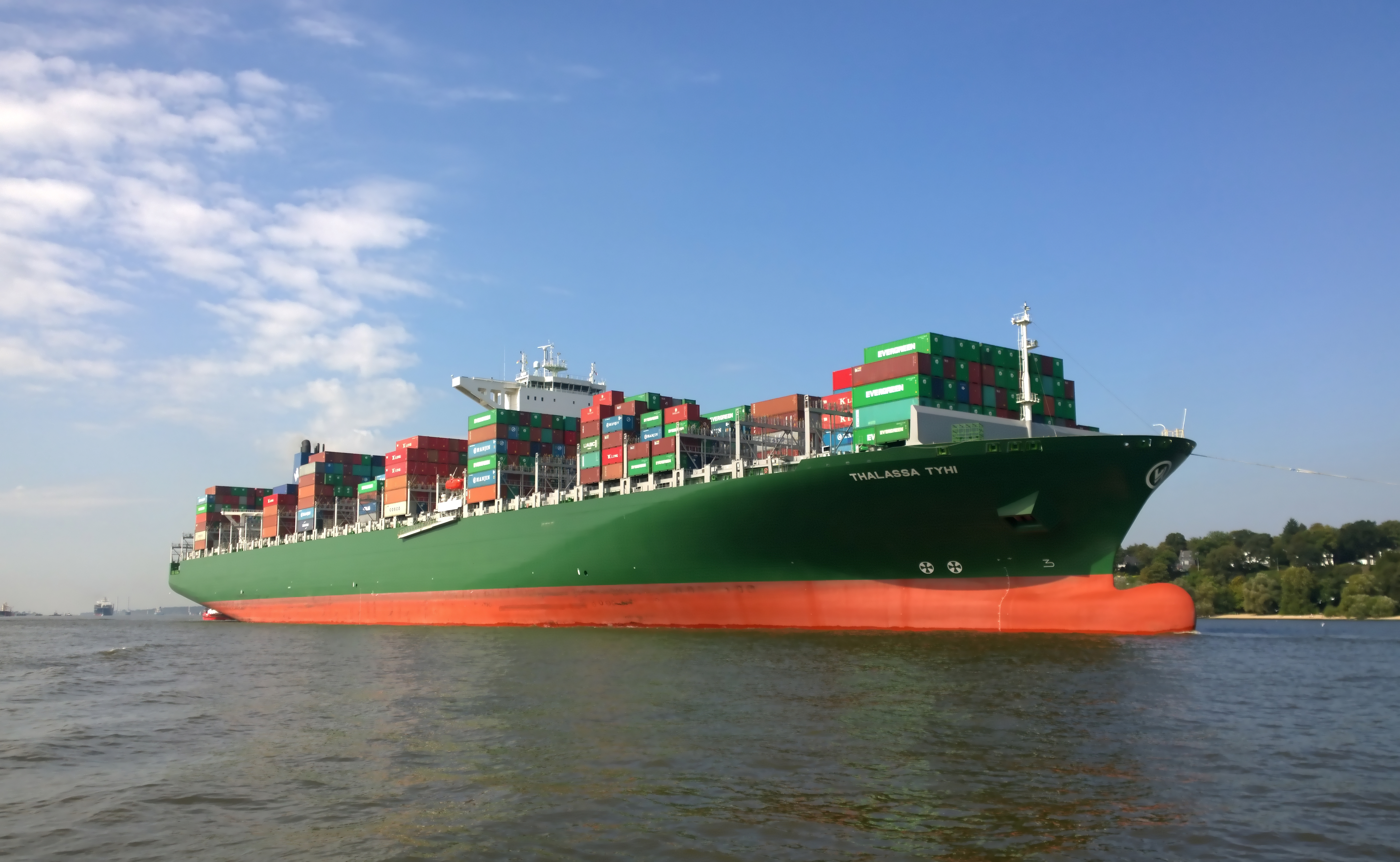 The new Containership Thalassa Tyhi of the Evergreen Marine Corporation on its maiden voyage to Port of Hamburg